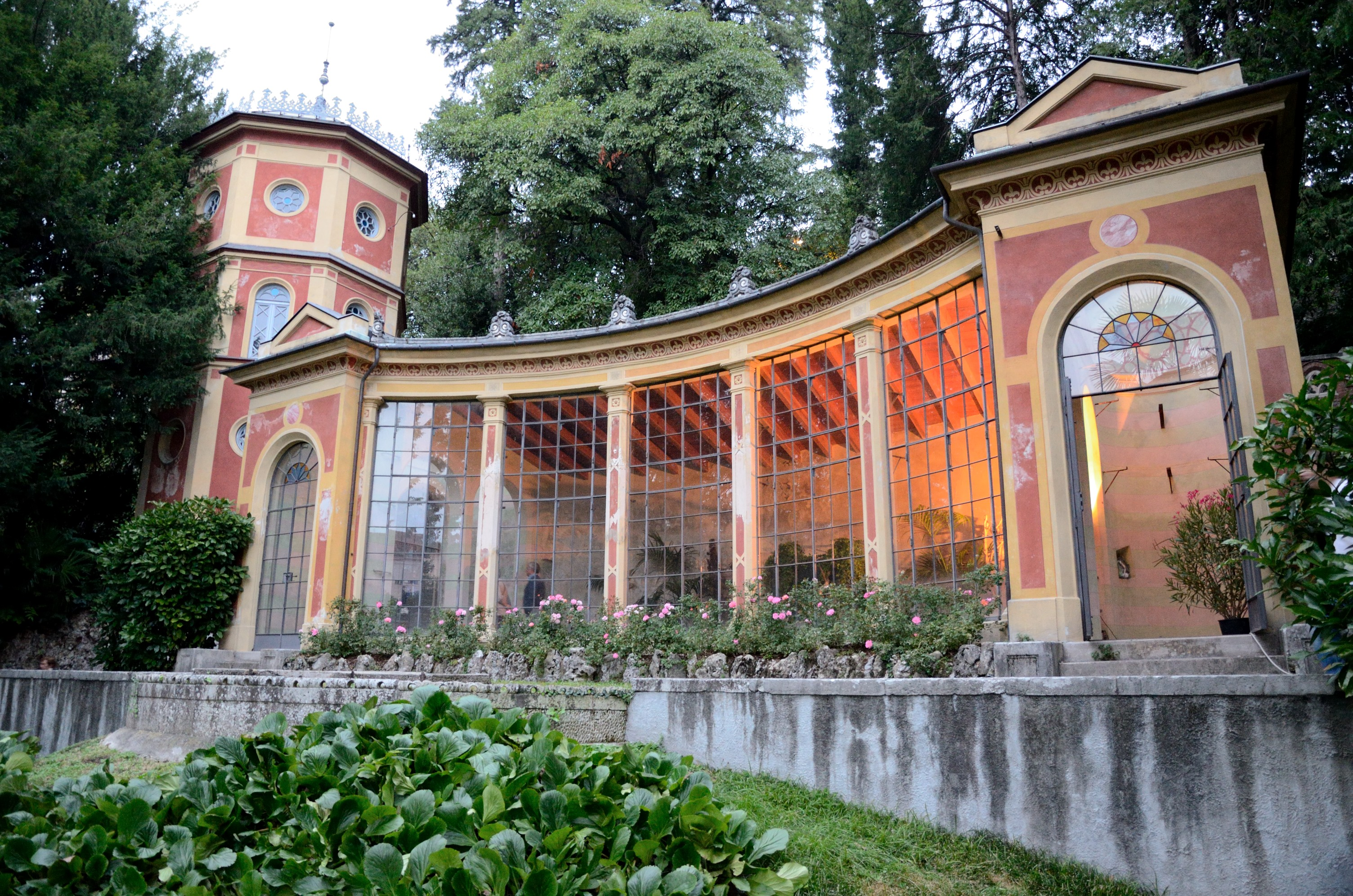 This is a photo of a monument which is part of cultural heritage of Italy.